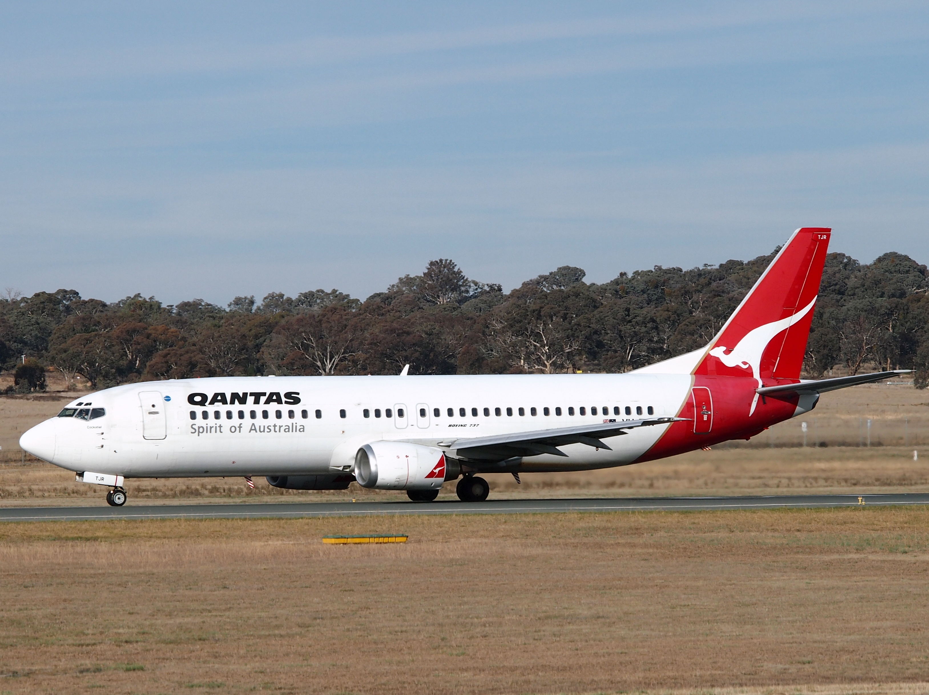 Qantas Boeing 737-400 VH-TJR taking off from Canberra Airport